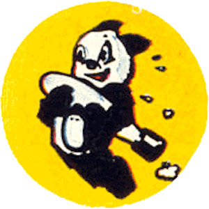 Emblem of the 409th Bombardment Squadron (World War II)